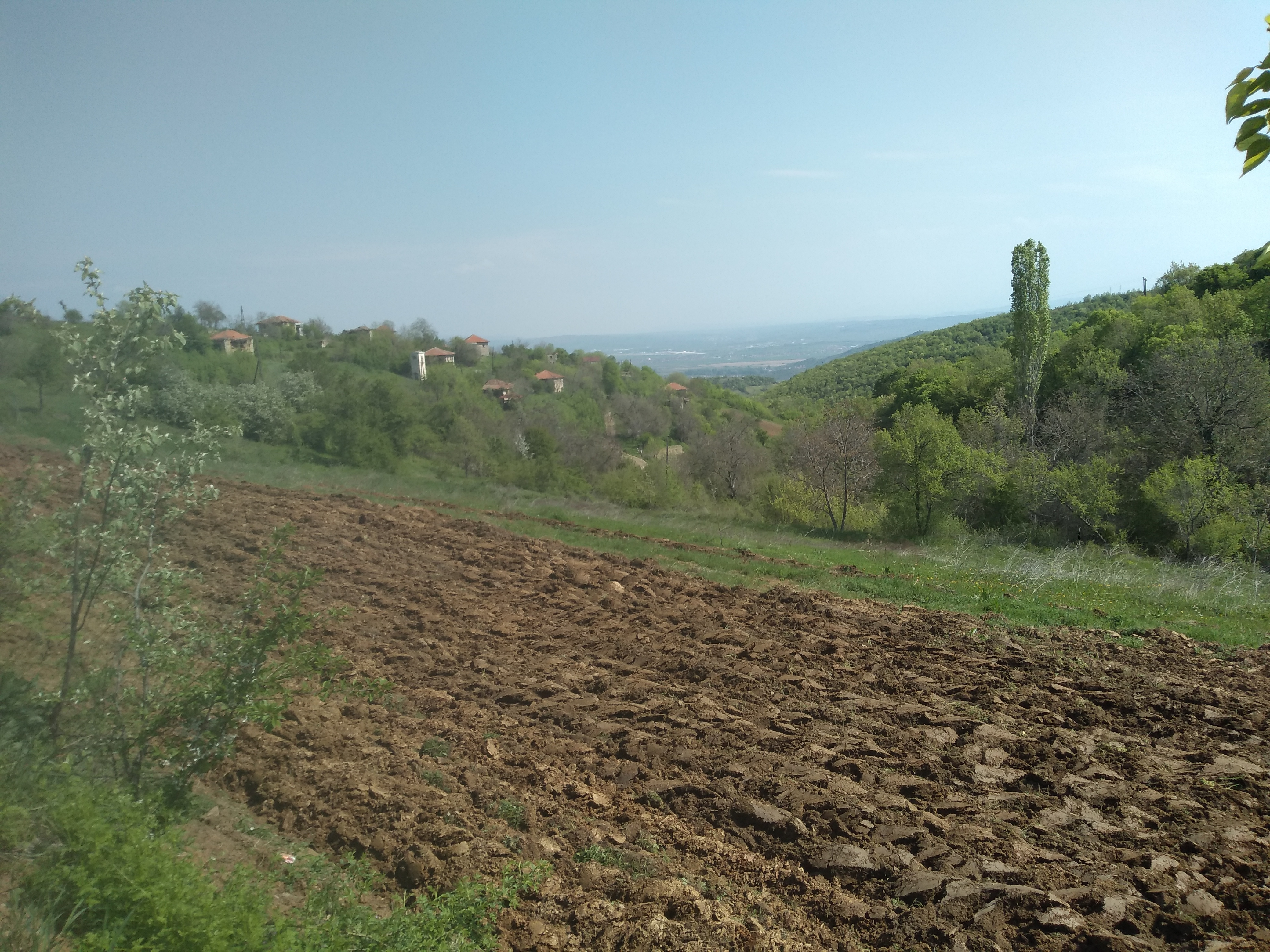 village of Gradovci in Municipality of Zelenikovo, Macedonia